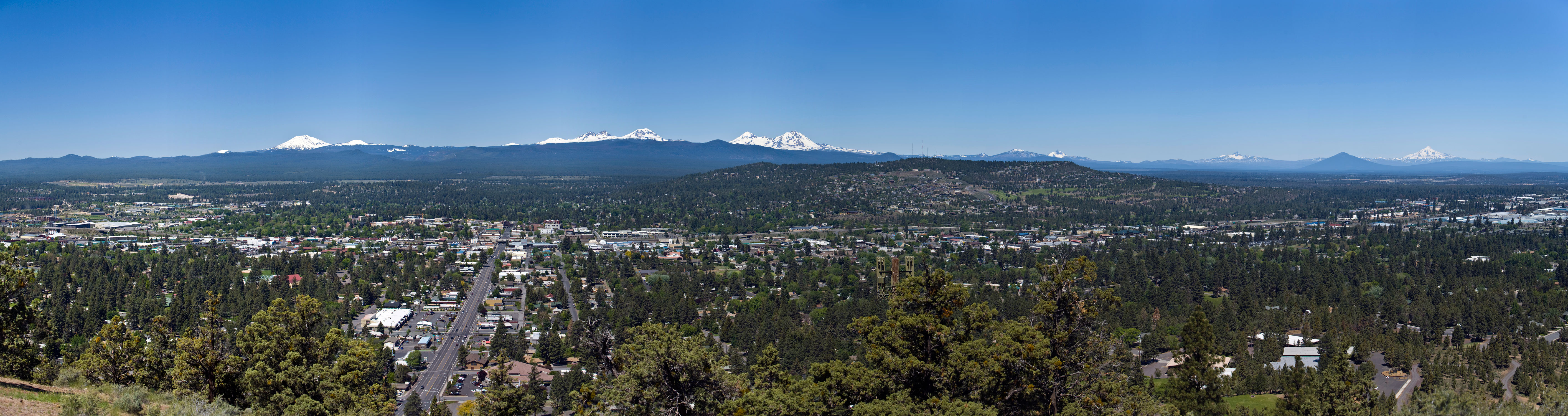 Bend, Oregon seen looking west from Pilot Butte. 9x1 panoramic image.